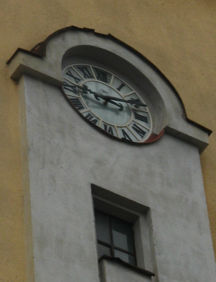 Clocks in PB